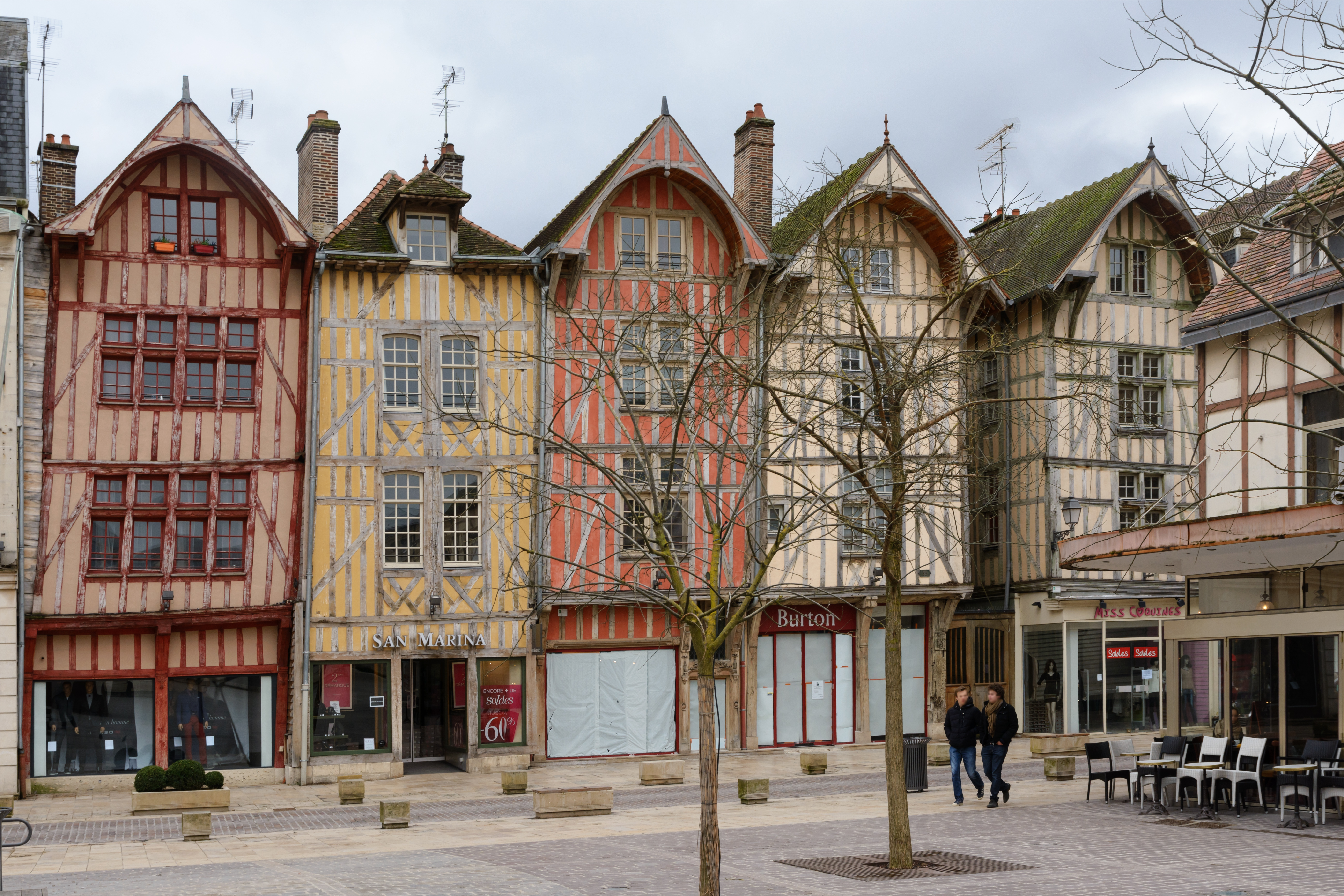 Troyes, Aube, Champagne-Ardenne, France: timber-frame houses located rue Émile-Zola